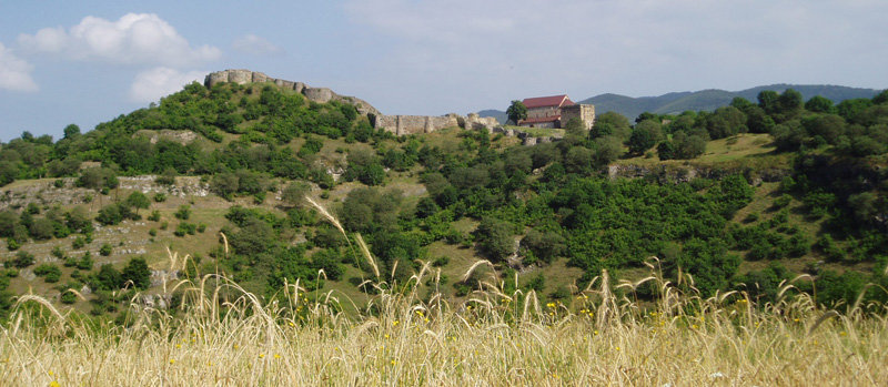 Dmanisi, Georgia. Site of discovery of Homo Georgicus